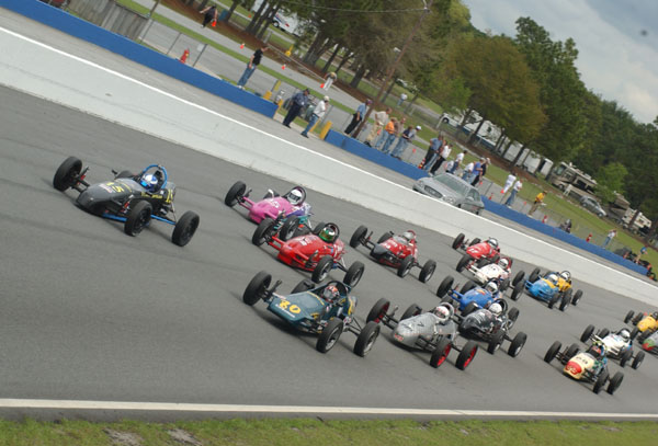 Picture of the 2008 Formula V 45th Anniversary Reunion